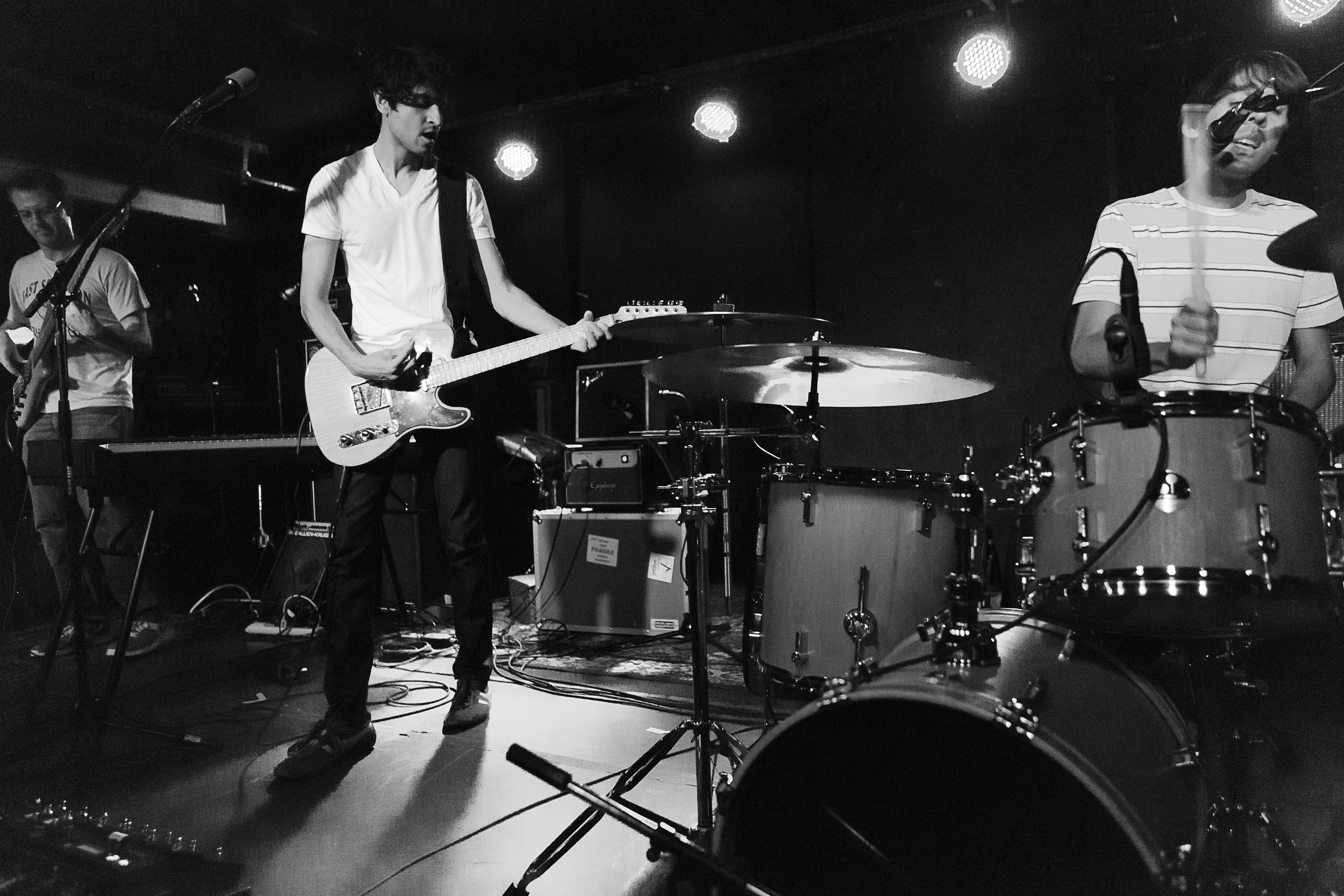 Wildlife Control playing at Mercury Lounge on August 3, 2012